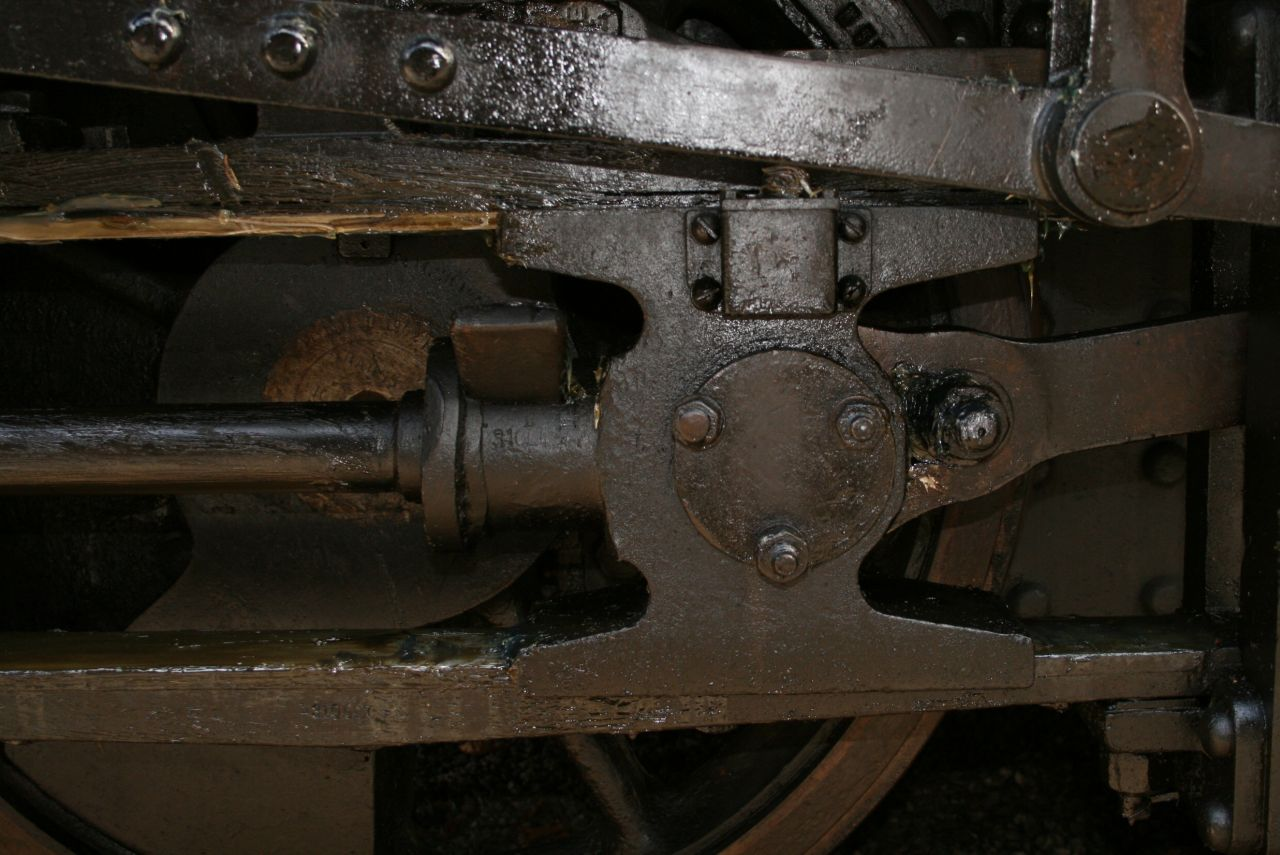 Detail of crosshead of steam locomotive.